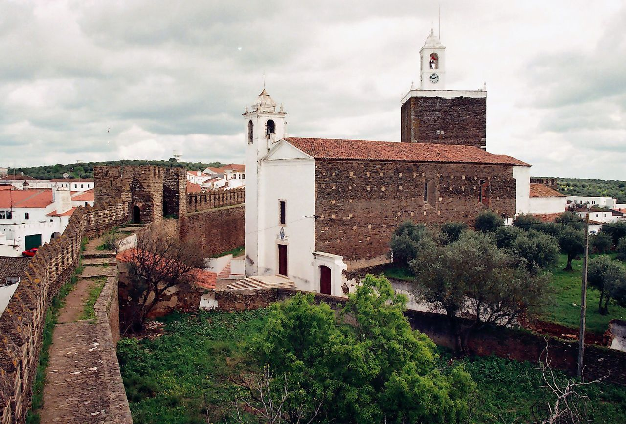 Panorama 360º - See where this picture was taken. [?]